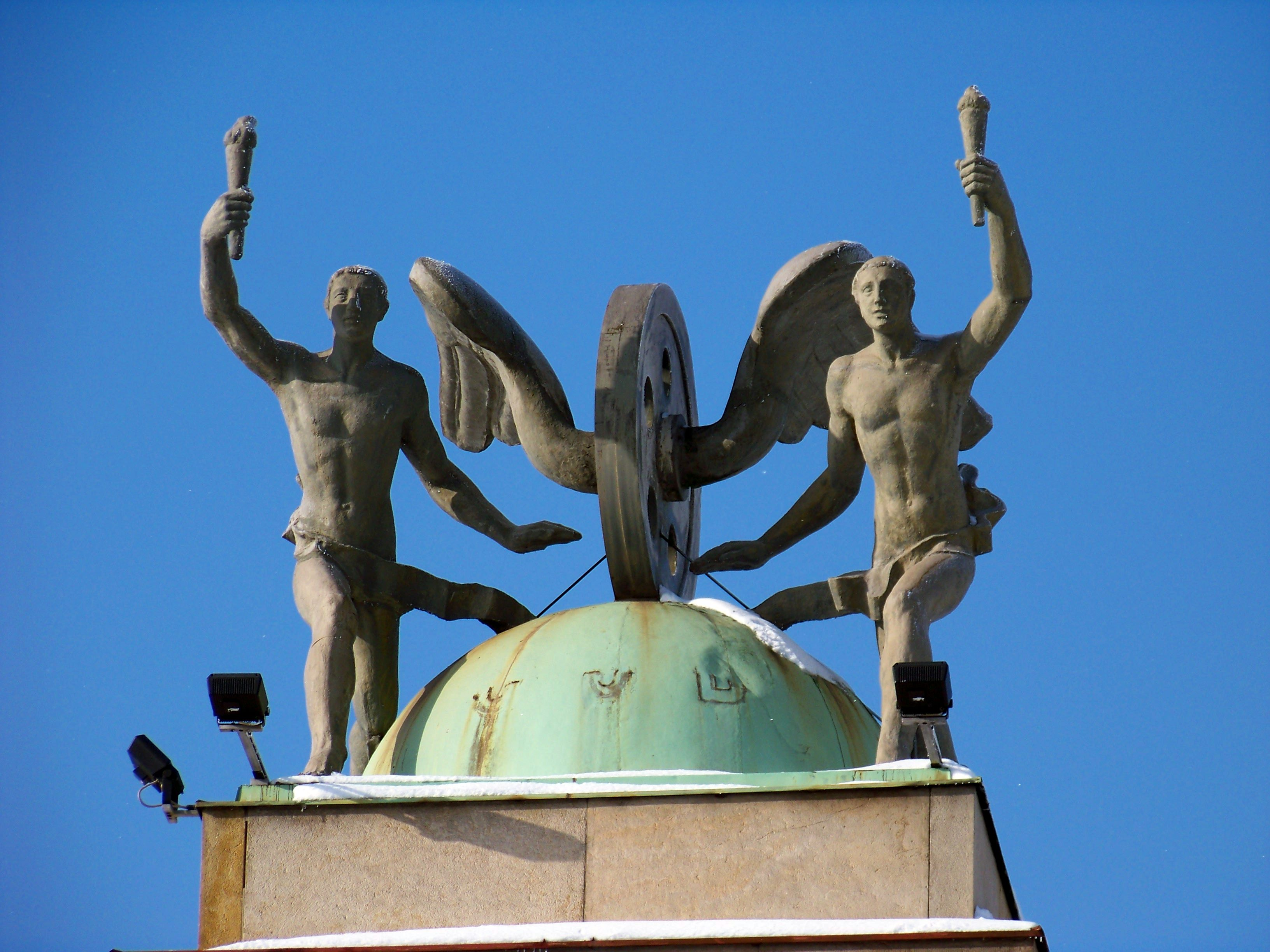 Hradec Králové-Pražské Předměstí, the Czech Republic. Rieger Square, a sculpture by Josef Škoda on the roof of the main train station.